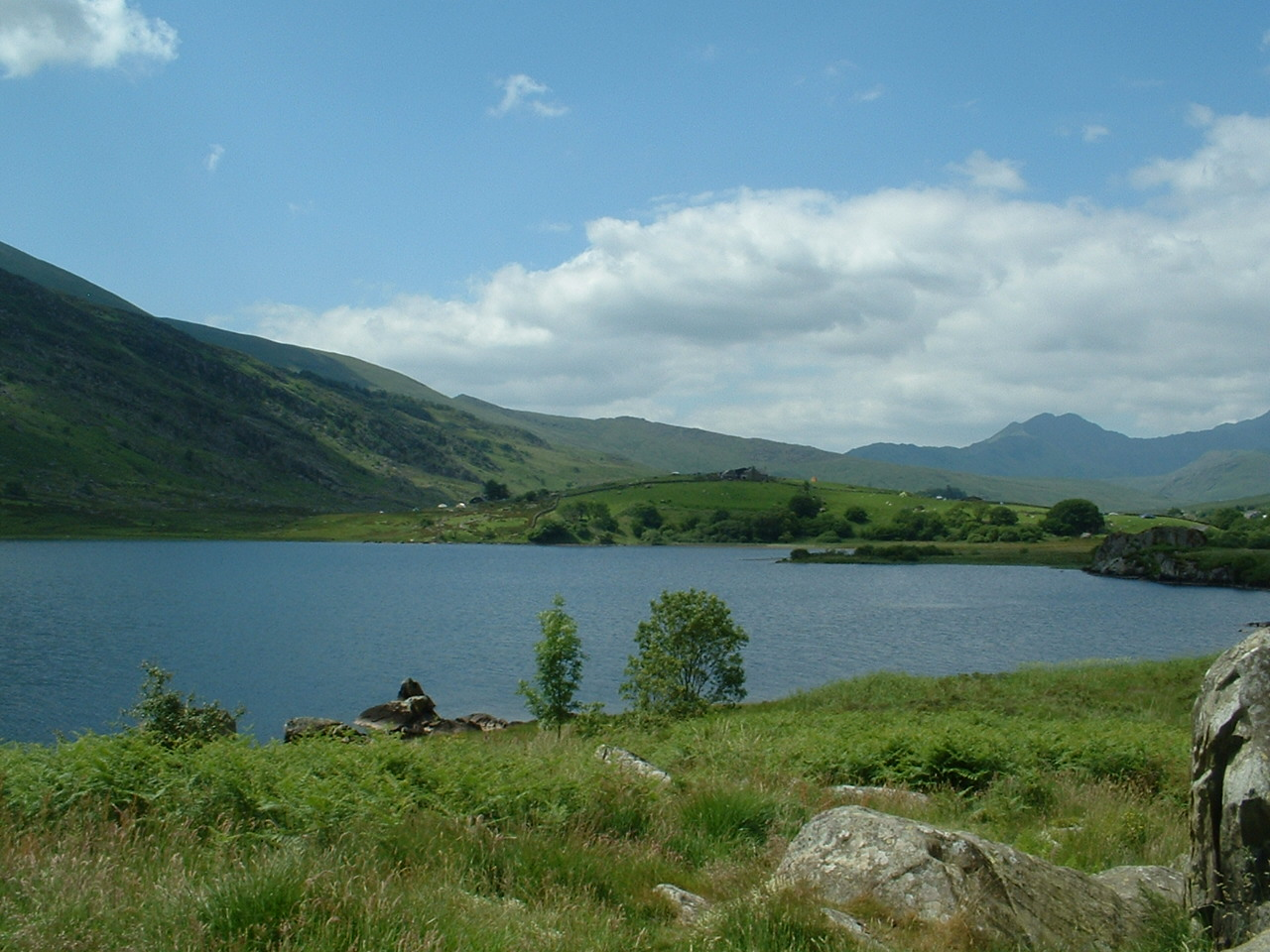 Llynnau Mymbyr, Snowdonia, Wales. Taken by Necrothesp, 26 June 2005.